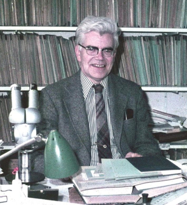 C.A.W. Jeekel at home, 1979. Image courtesy L.A. Pereira.